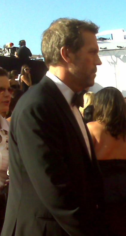 Crop from Image:Emmys-laurie.jpg